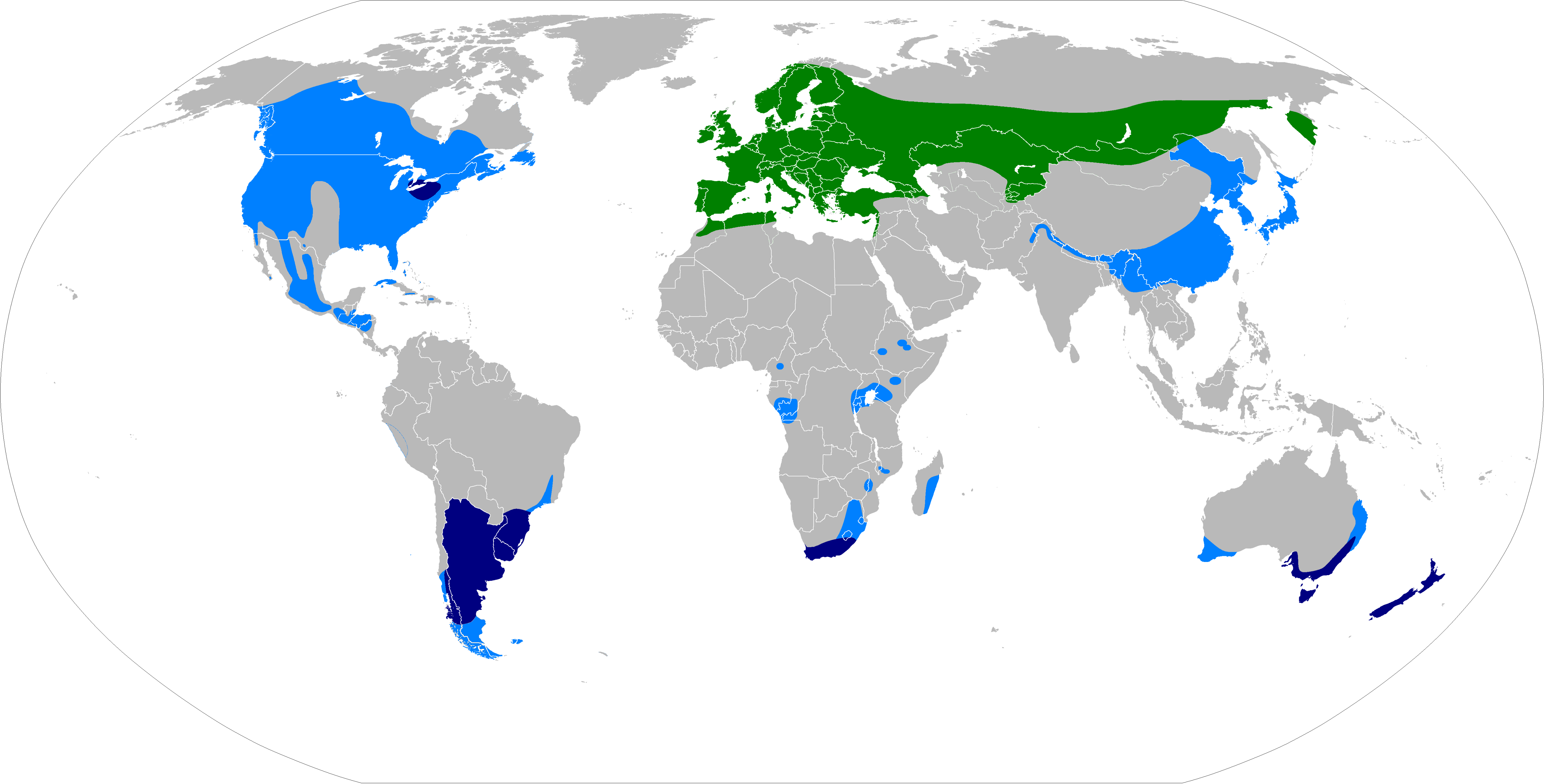 Distribution of the Sirex Woodwasp (Sirex noctilio). Green: Natural range. Dark blue: Introduced. Light blue: Predicted future distribution. Derived from: Angus J. Carnegie et al.: Predicting the potential distribution of Sirex noctilio (Hymenoptera: Siricidae), a significant exotic pest of Pinus plantations. In: Annals of Forest Science 63 (2006), pp. 119–128.